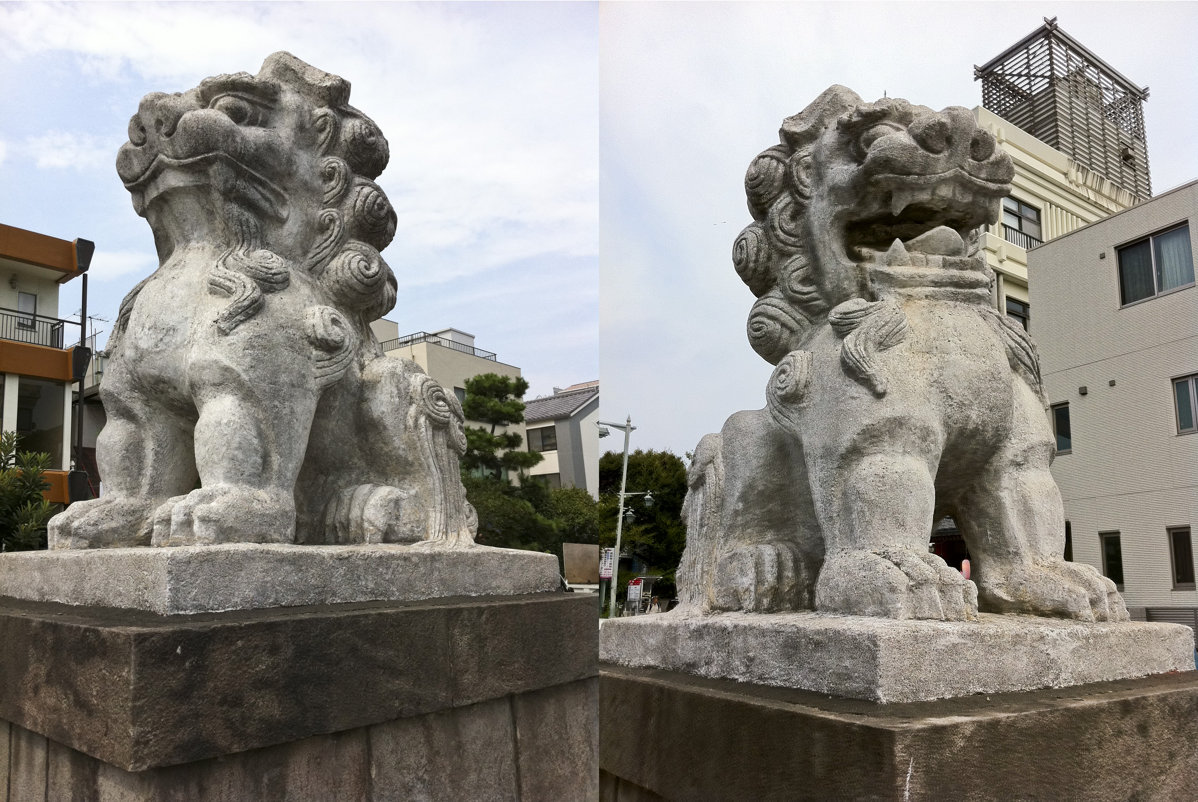 A closeup of a pair of "komainu" meant to emphasize the open and closed mouth of the animals, to illustrate the idea of an "a-un" pair.